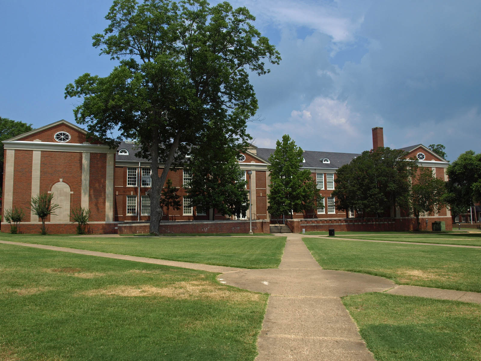 William Burns Patterson Hall on the campus of Alabama State University in Montgomery, Alabama